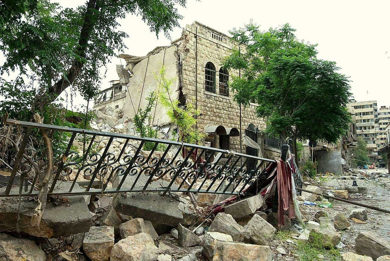 National Evangelical Church of Aleppo after being destructed by the "moderate" rebels.